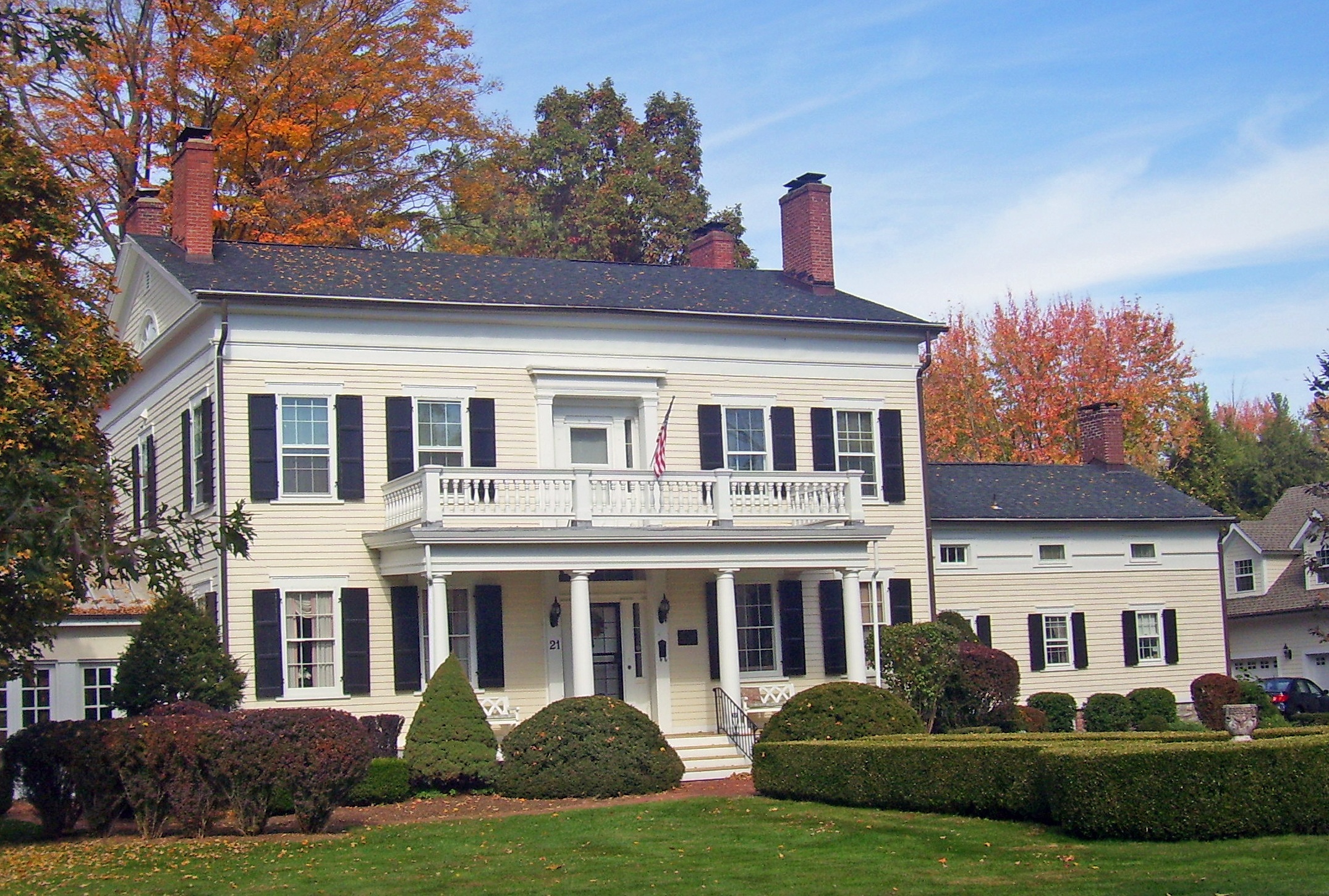 Bykenhulle, historic home now a bed and breakfast, Hopewell Junction, NY, USA